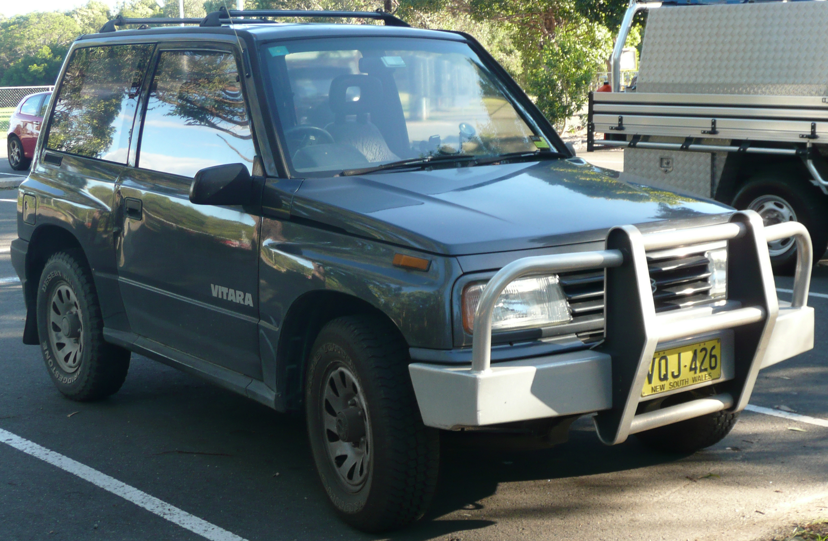 1990 Suzuki Vitara (SE416V Type1) JLX hardtop. Photographed in Loftus, New South Wales, Australia.